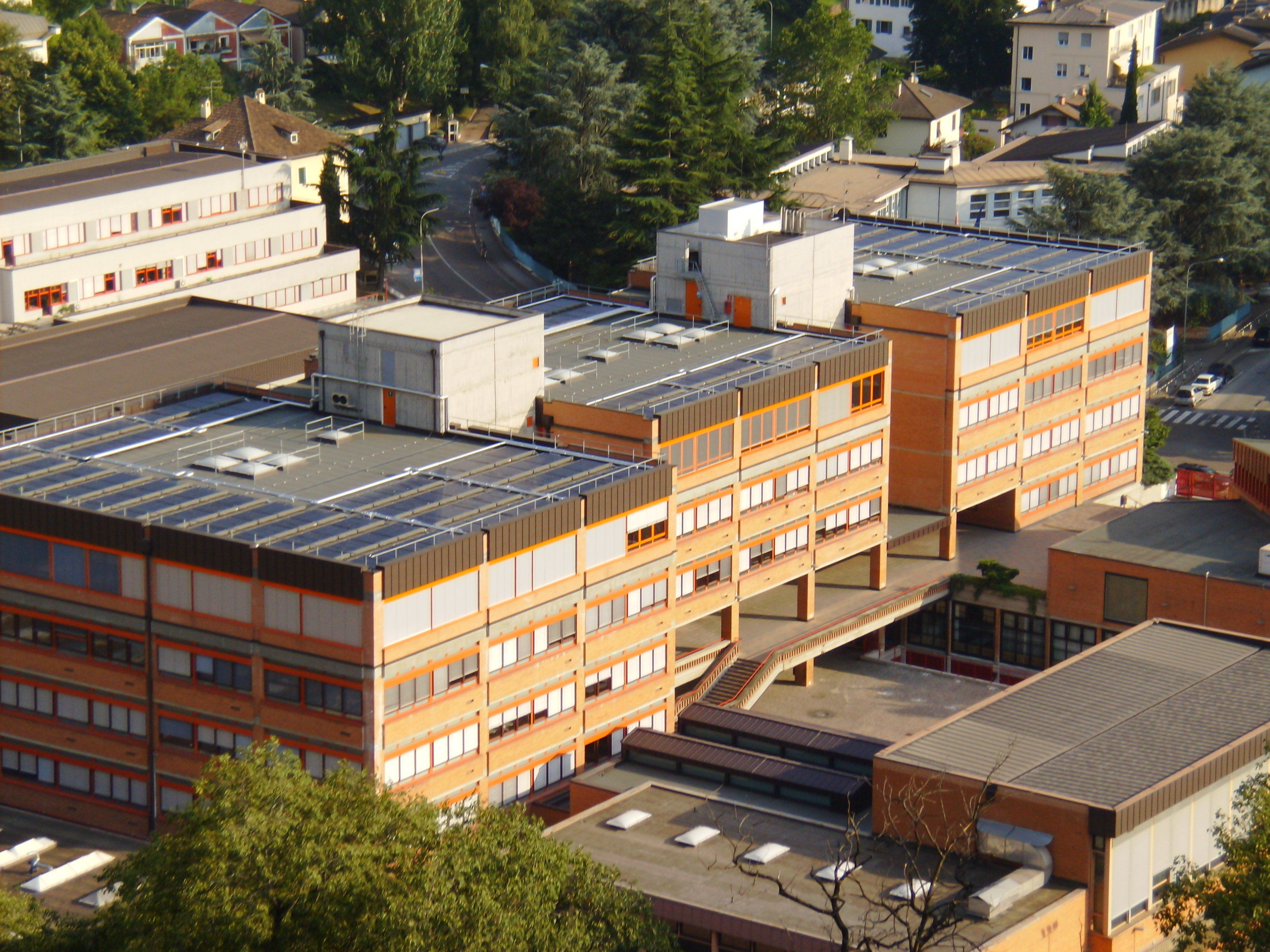 "Luigi Einaudi" School in Oberau-Haslach, a subdivision of Bolzano, South Tyrol